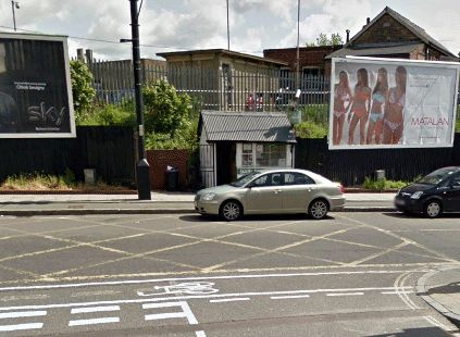 Stroud Green, London; former coal office, opposite Wells Terrace. For full information see the Wikipedia page History of Stroud Green